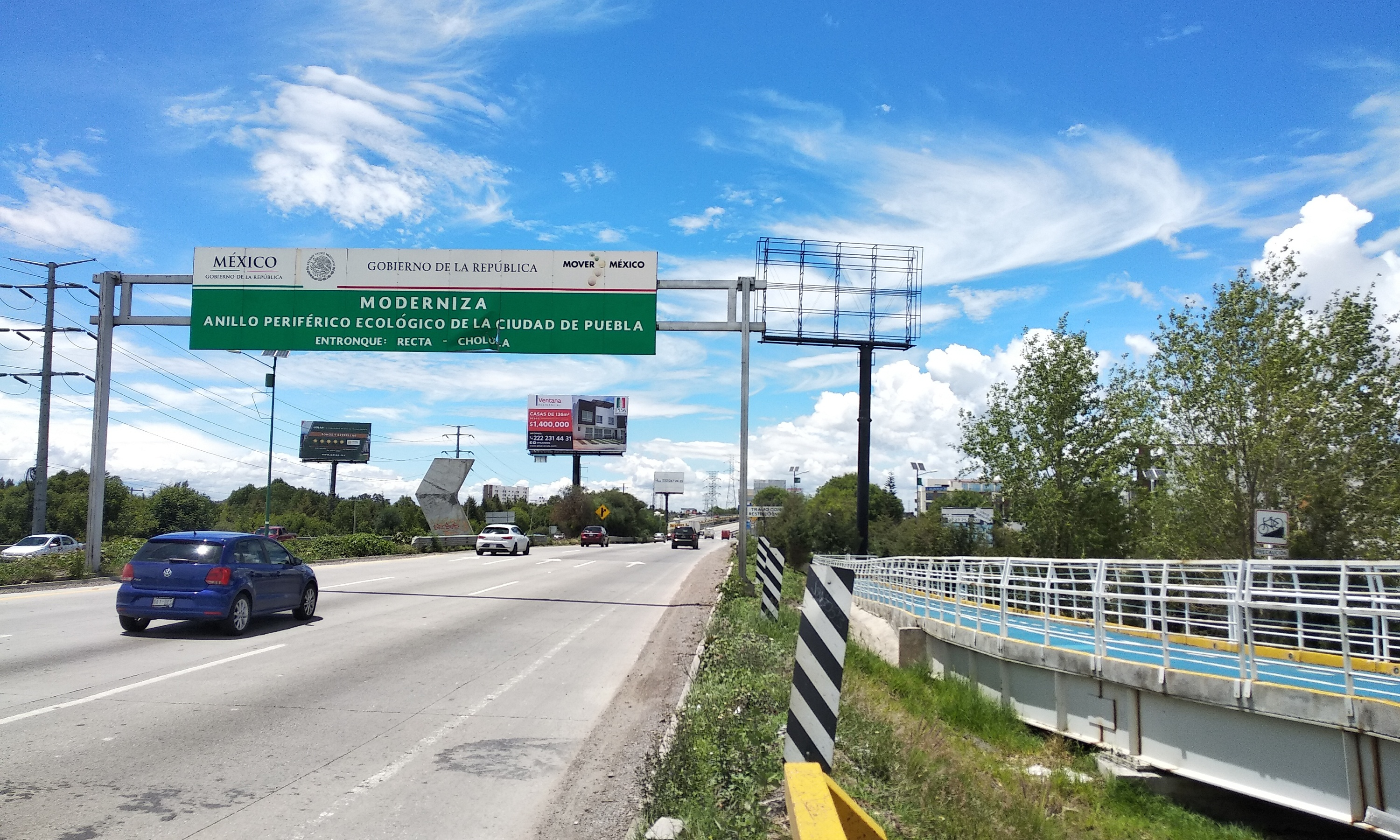 Anillo Periférico Ecológico is the ring road around the city of Puebla, Mexico. This picture was taken between the exits Camino Real a Cholula and Recta a Cholula, in San Andrés Cholula municipality.